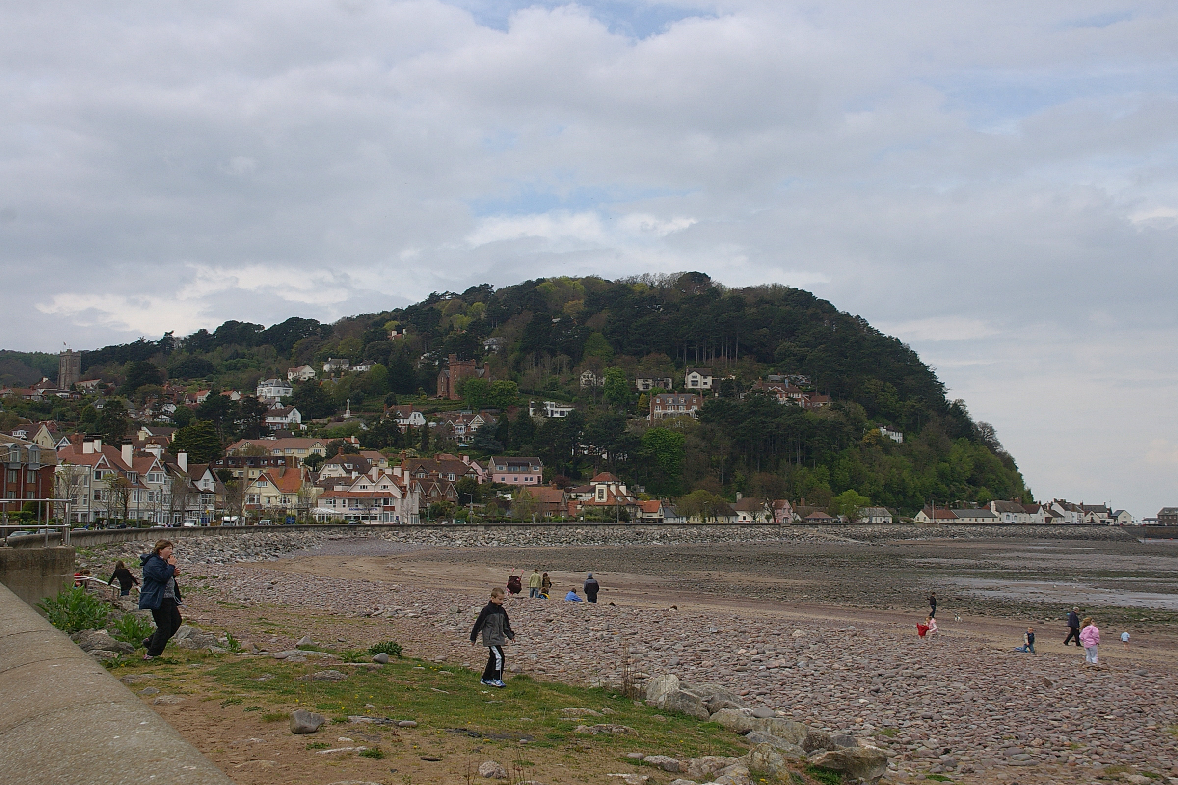 The hill at Minehead. I assume this is the head.